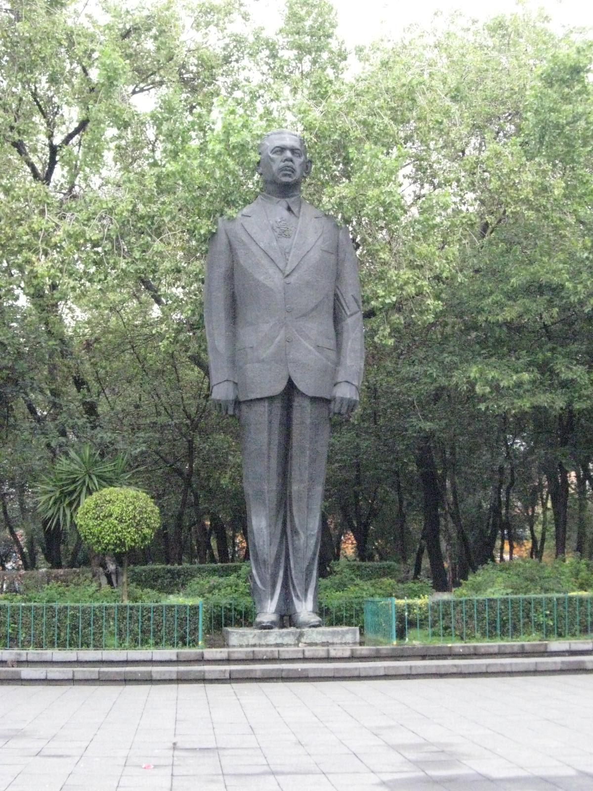 Statue of Lazaro Cardenas (former president of Mexico) erected in Lazaro Cardenas Plaza facing Eje Central in Mexico City